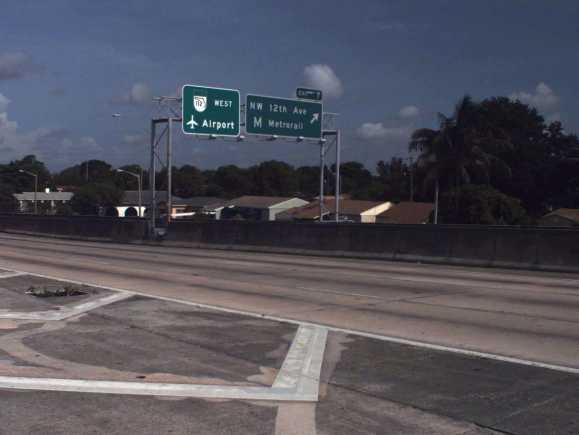 looking at signs at the south end of the I-95 express lanes in Miami, from I-195 (SR 112) westbound, 87004000 mile 0.085 (frame 986)note that the old exit number was never changed